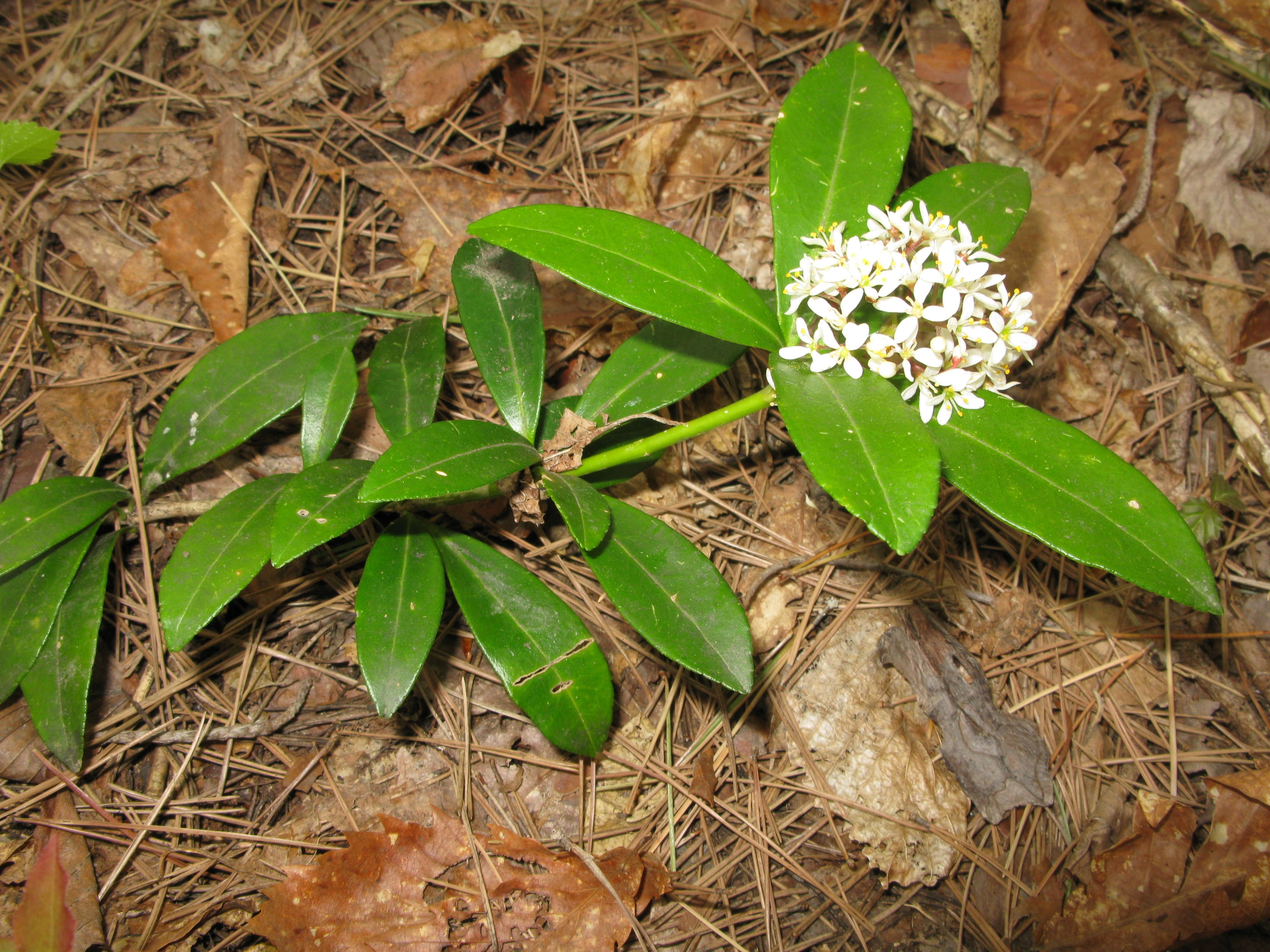 Skimmia japonica var. intermedia f. repens, Aizu area, Fukushima pref., Japan